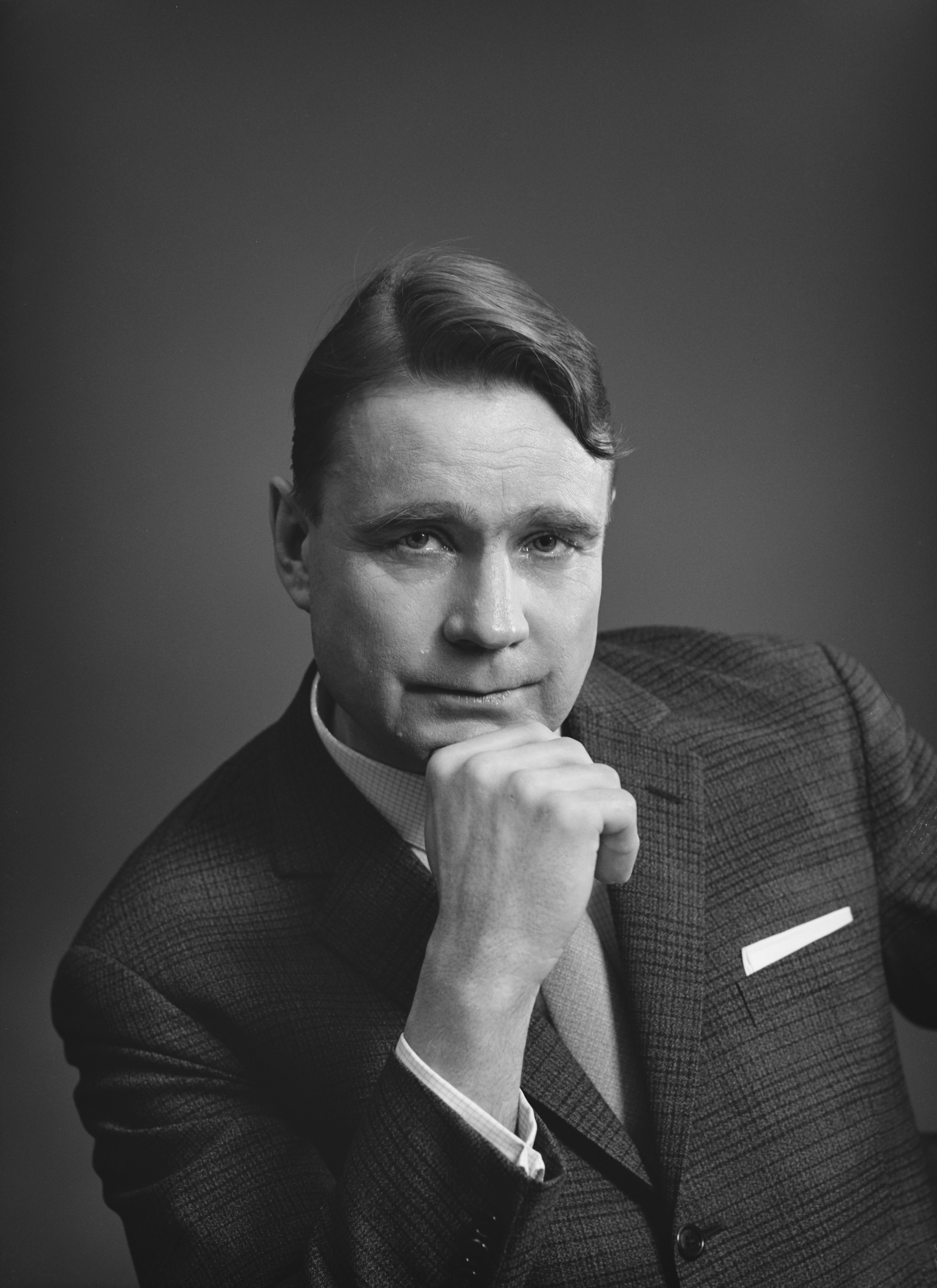 Photograph of the Finnish politician, future president Mauno Koivisto (1923–2017).